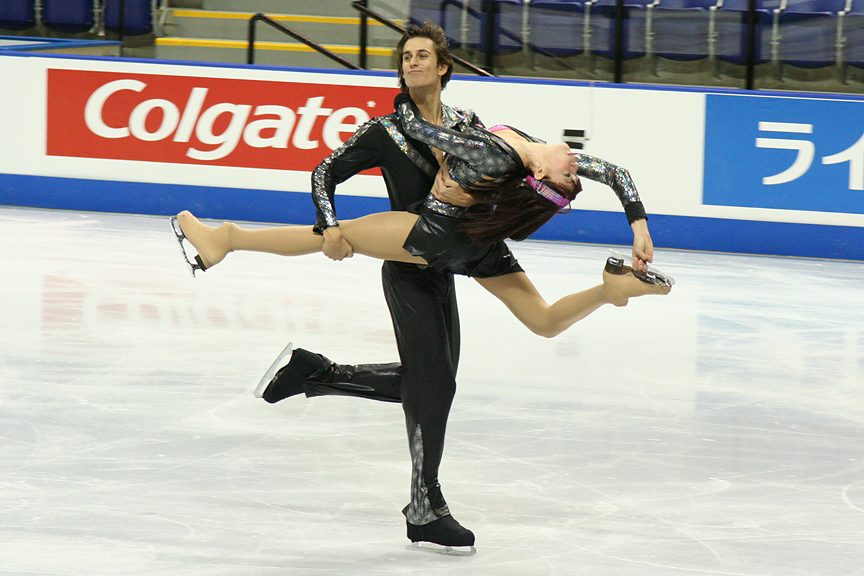 Kamila Hájková & David Vincour perform a lift at the 2006 Skate Canada International.